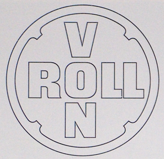 One of the old logos of the Swiss company "Gesellschaft der Ludwig von Roll'schen Eisenwerke", later Von Roll AG.